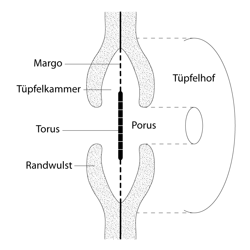 Schematic illustration of a bordered pit in the early wood of Pinaceae